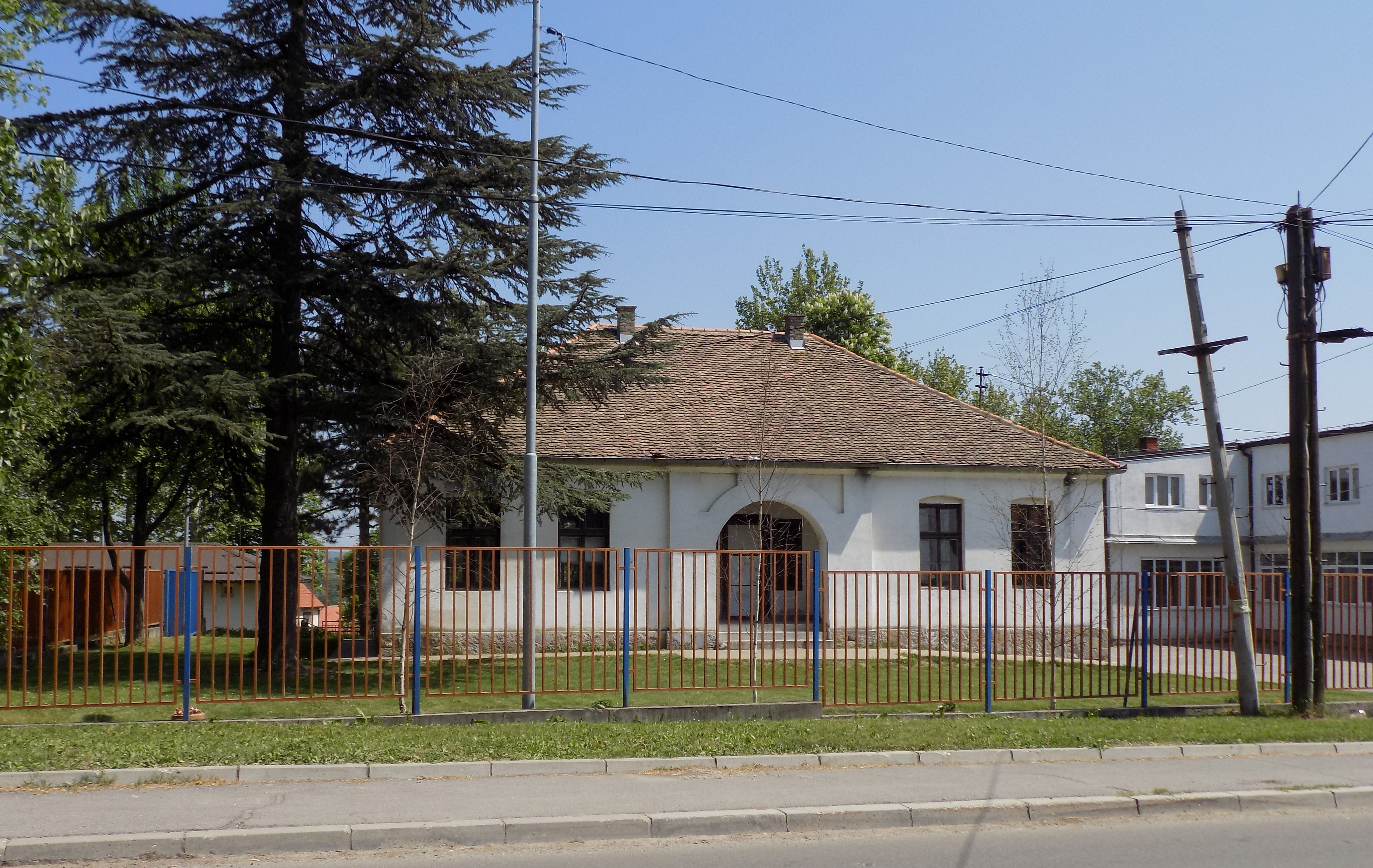 Old school in Velika Moštanica, suburban settlement of Čukarica, a municipality of the city of Belgrade, Serbia